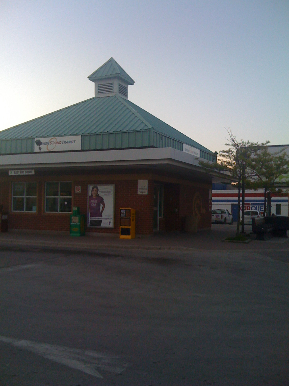 Owen Sound Transit Terminal